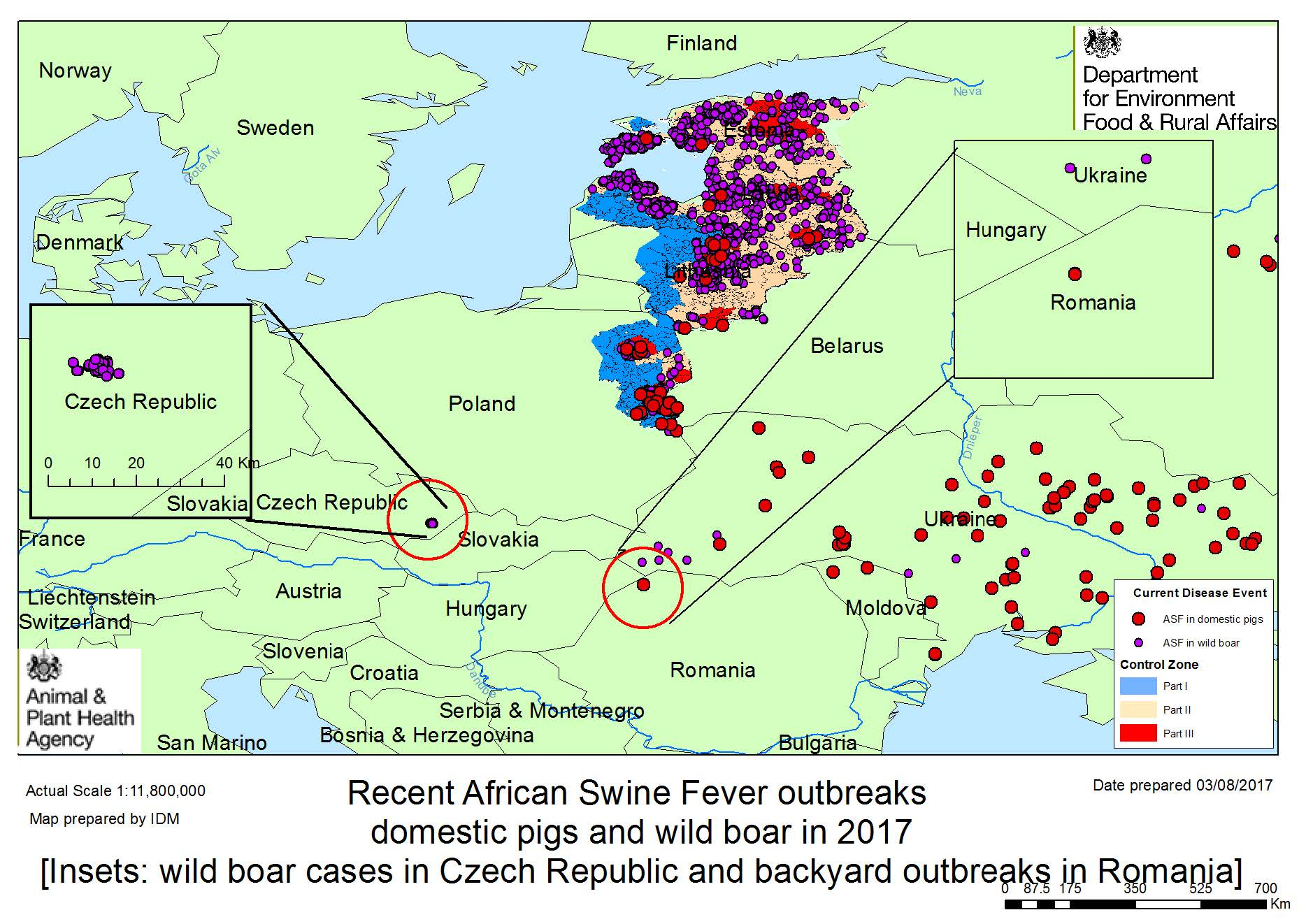 African Swine fever in Eastern Europe. Updated Outbreak Assessment 11. 3 August 2017